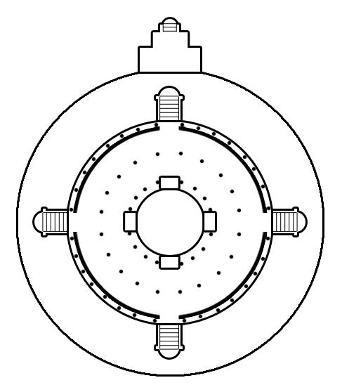 Layout of the Vatadage in Polonnaruwa from above. The outer circle shows the lower platform, while the second circle shows the upper platform. The circle in the middle is the stupa, while the four rectangles next to it indicate the positions of the four Buddha statues. The dots indicate stone columns. The four entrances leading to the upper platform and the main entrance leading to the lower platform can also be seen.